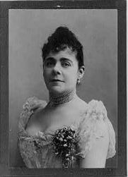 Photo shows Louise Hungerford Mackay (1843-1928), a Gilded Age socialite who married Nevada silver baron John Mackay.